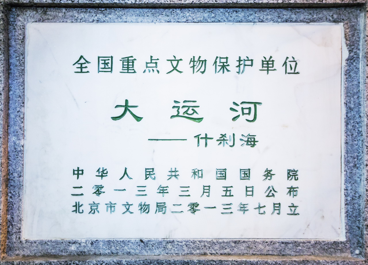 Shichahai Lake, Grand Canal of China